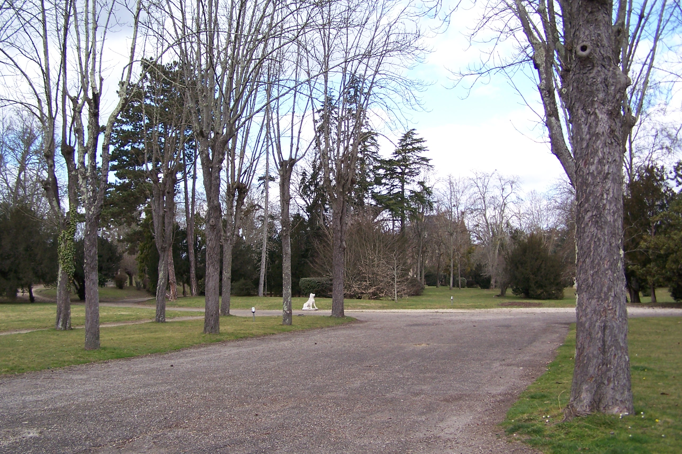 Castle Chavat in Podensac (Gironde, France)